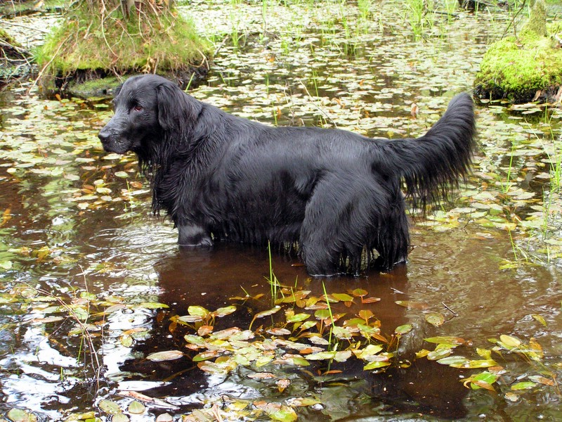 Flatcoated Retriever